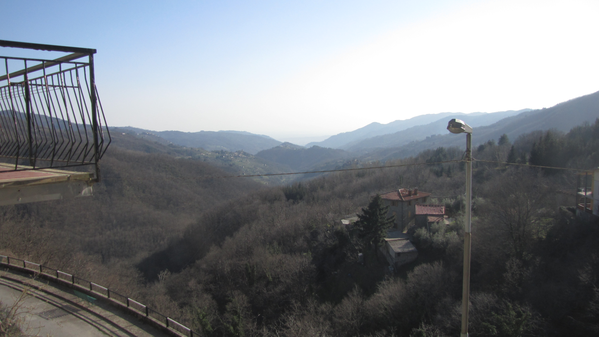 View of the northern part of the valley of Pesciatine Switzerland from the village of Stiappa.